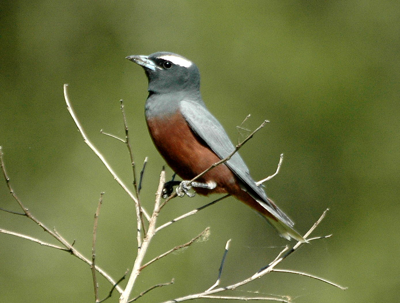 White-browed Woodswallow (Artamus superciliosus) Samsonvale Cemetery, SE Queensland, Australia